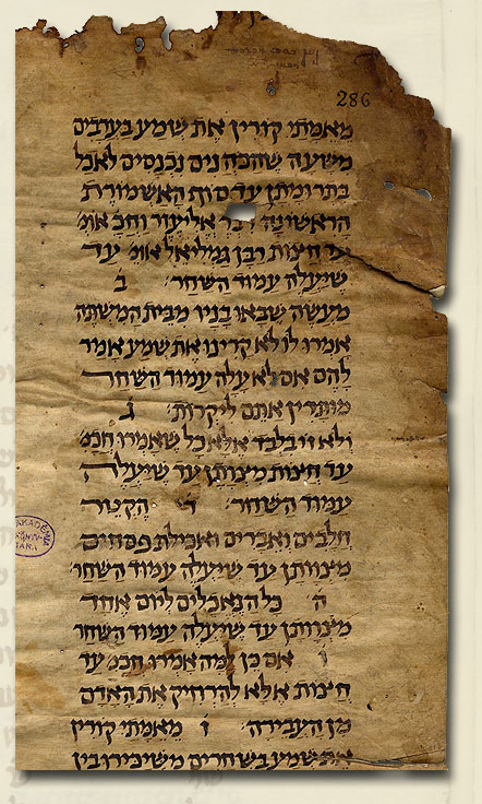 The most important manuscript in the Kaufmann collection is no doubt the Mishna manuscript, shelf-mark MS Kaufmann A 50, which is sometimes referred to as the Codex Kaufmann (fig. 1). There are three complete manuscripts extant of the Mishna and ours is regarded as the oldest and best of them. It does not have a colophon, so views differ as to its age and origin. Ignaz Goldziher considered it to be of South Arabian origin while Samuel Krauss and recently Malachit Beith-Arié thought it had been written in Italy. Goldziher does not mention on what basis he made this statement. the view has also been advanced that the manuscript probably comes from Palestine. It was written in the tenth or eleventh century.